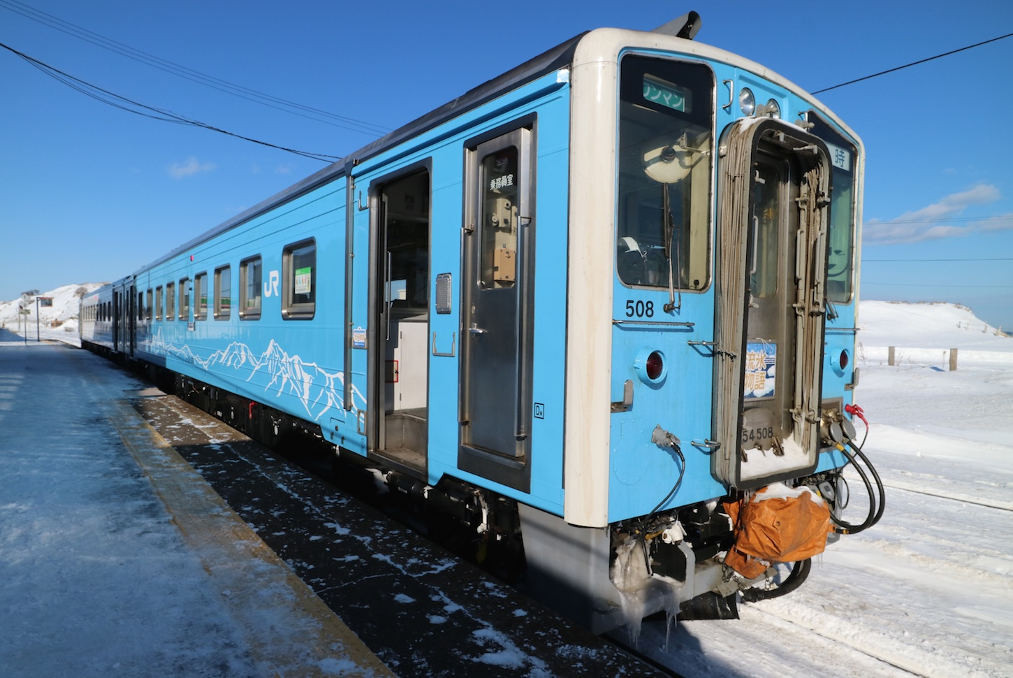 JR Hokkaido KiHa 54-500 at Hama-Koshimizu Station in Hokkaido, Japan